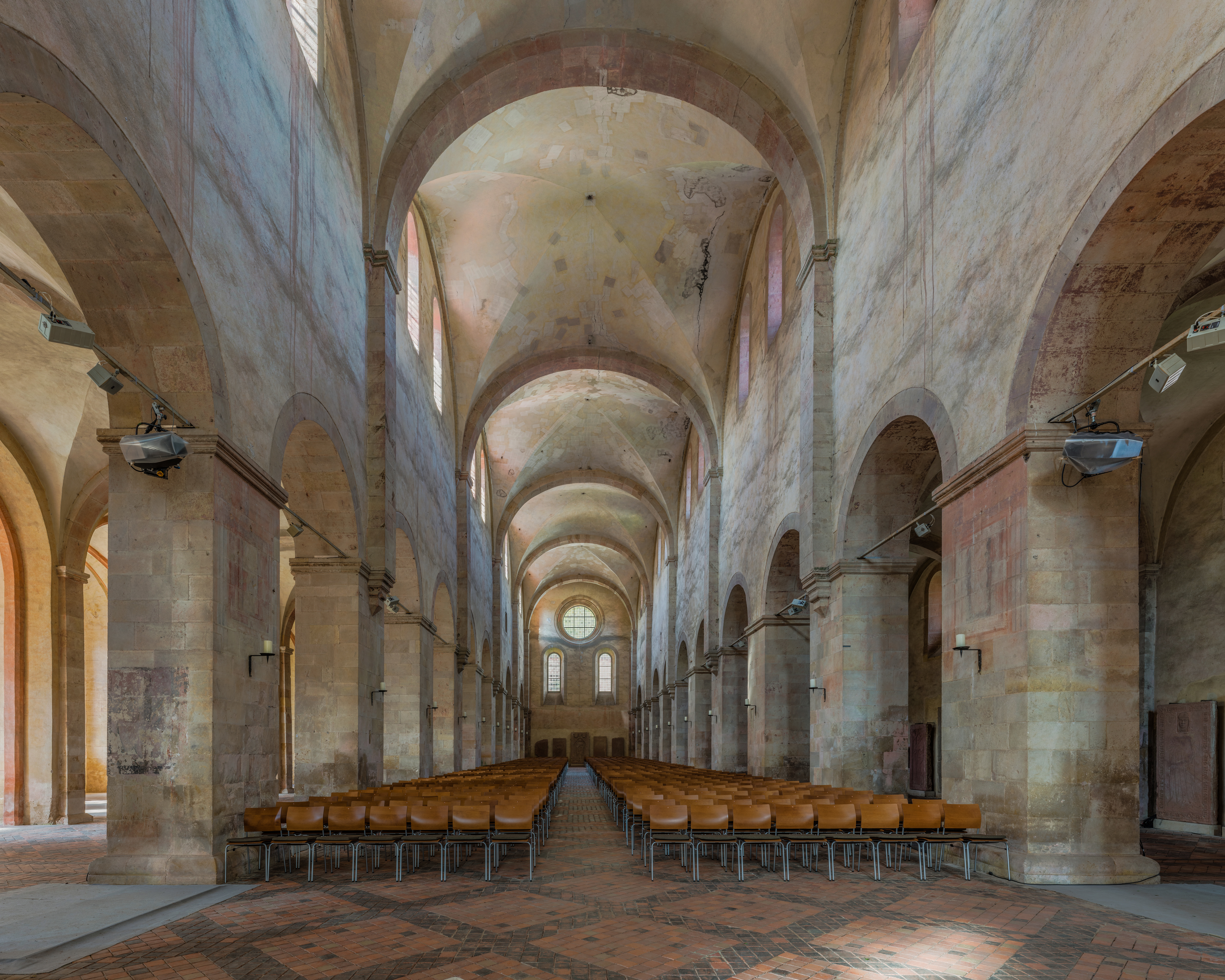 The nave of the basilic of Eberbach Abbey looking from the choir. Chairs are in place to accomodate the audience of the upcoming Rheingau Musik Festival 2014